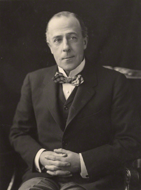 Portrait of Richard Verney